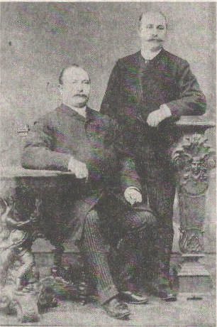 Johann Theodor Peek and Heinrich Cloppenburg, founders of Peek & Cloppenburg.